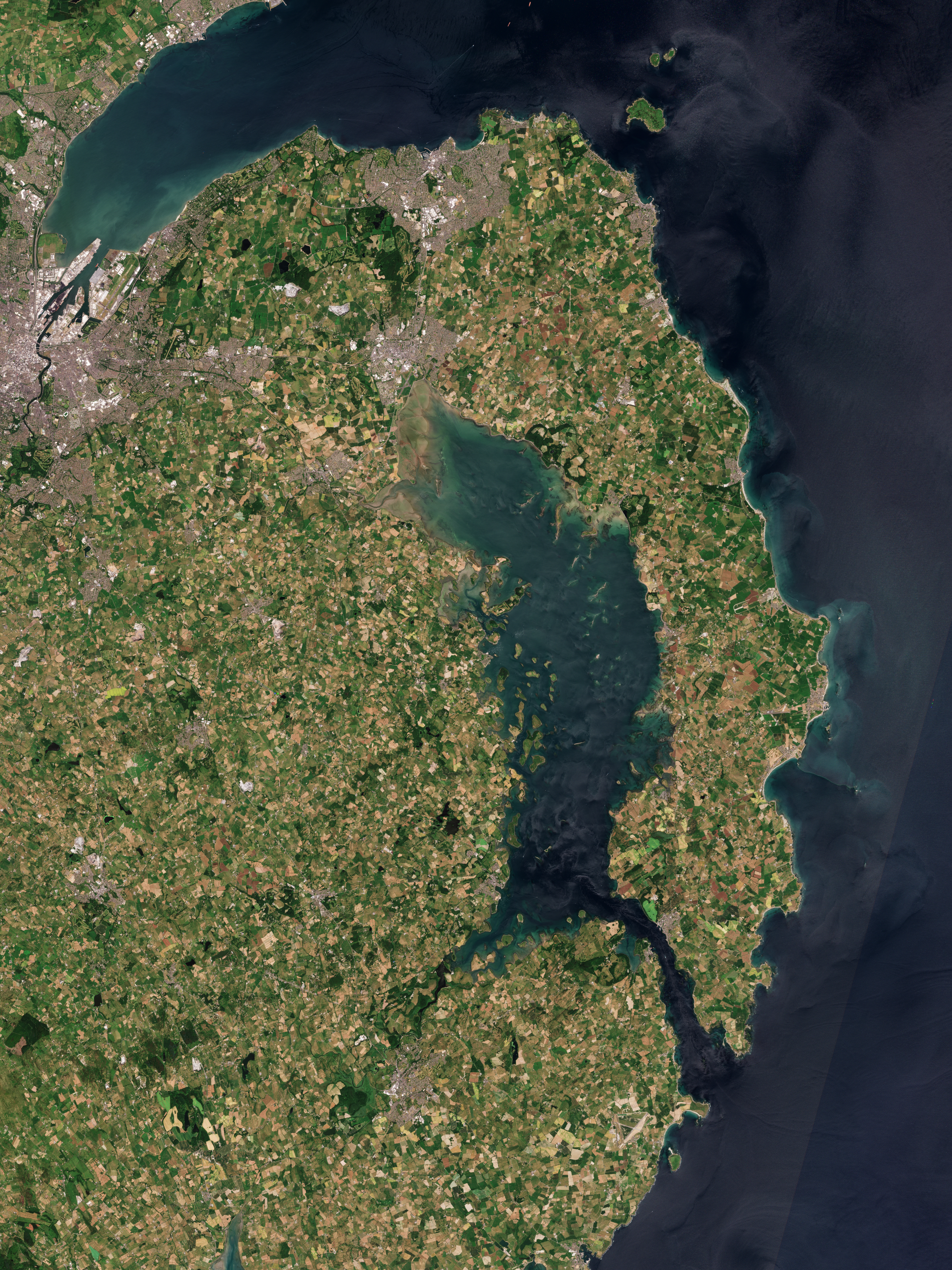 Date: 2018-06-30 Sensor: MSI on Sentinel-2B Resolution: 10m RGB Composites: True color, Band 4-3-2